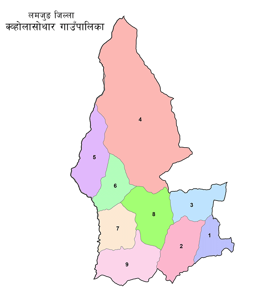 Kovlasothar नेपाली: क्व्होलासोथार गाउँपालिका